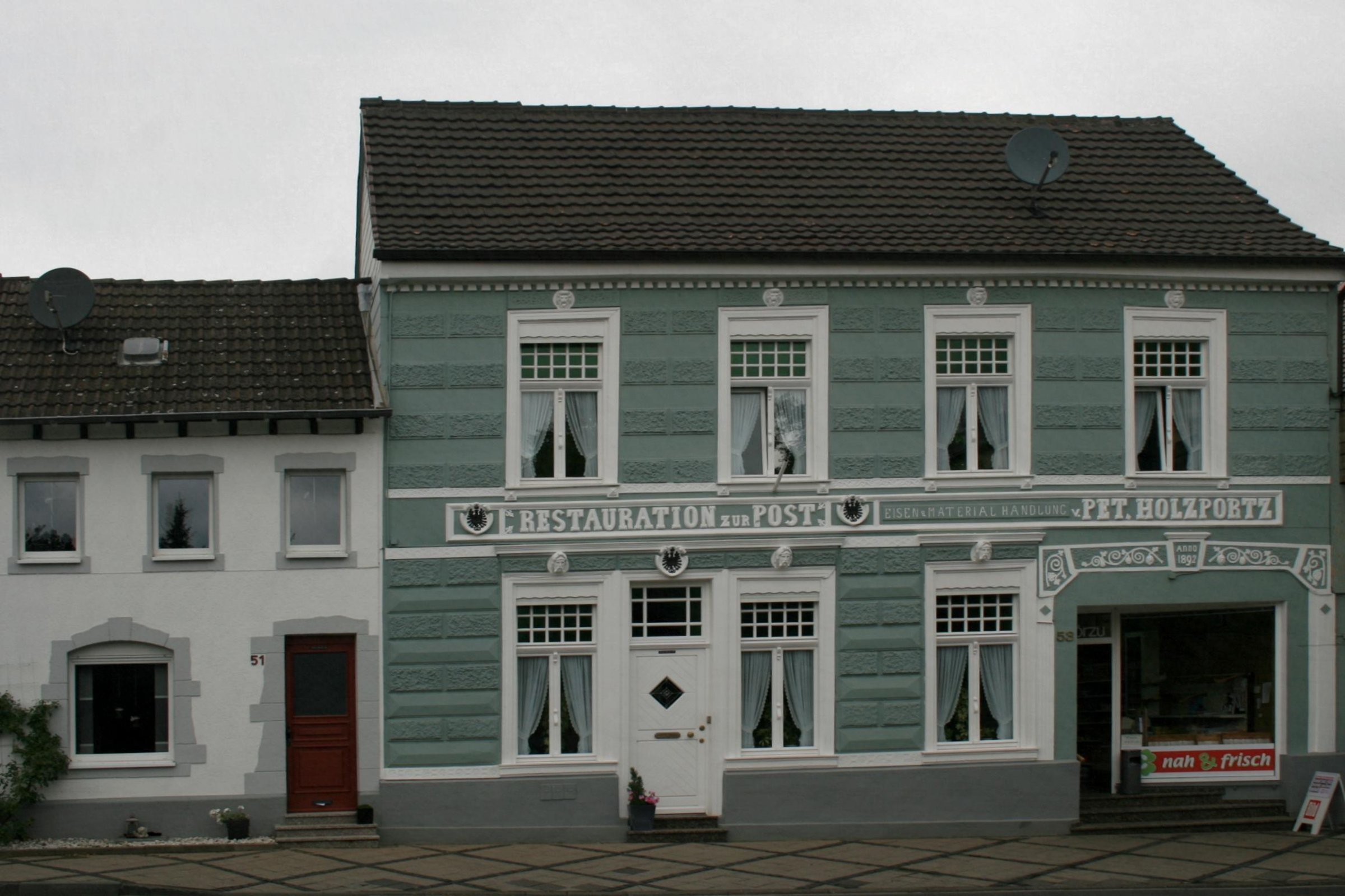 Cultural heritage monument No. 115 in Nideggen